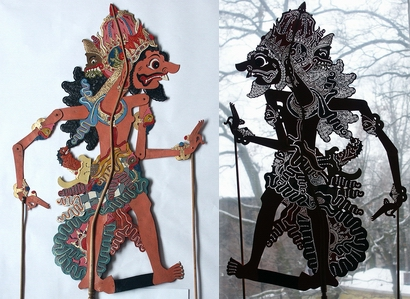 Jin Jaswadi, wayang kulit figure from the epos Serat Menak Sasak